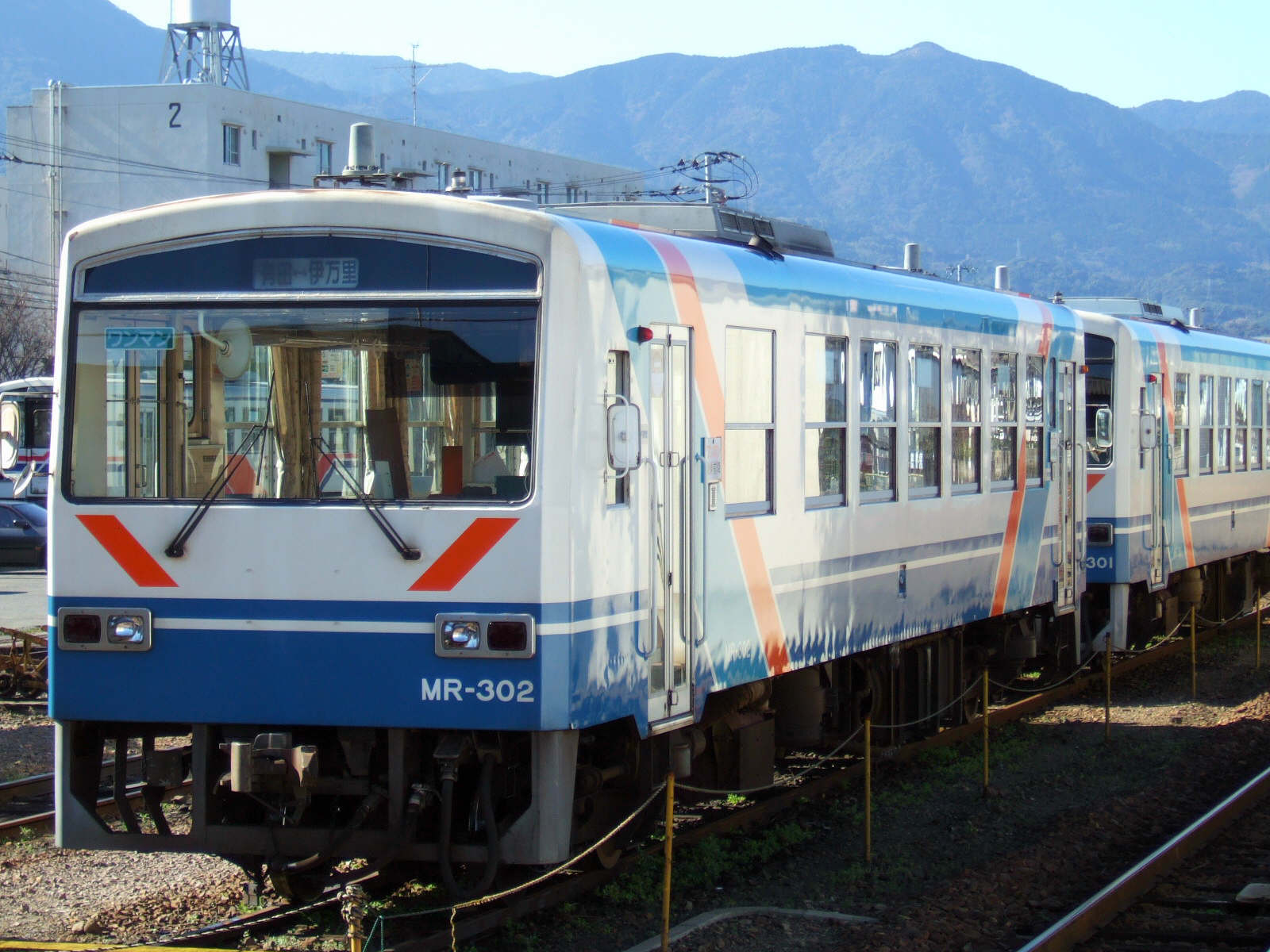 Matsuura Railway MR-300 DMU at Imari Station